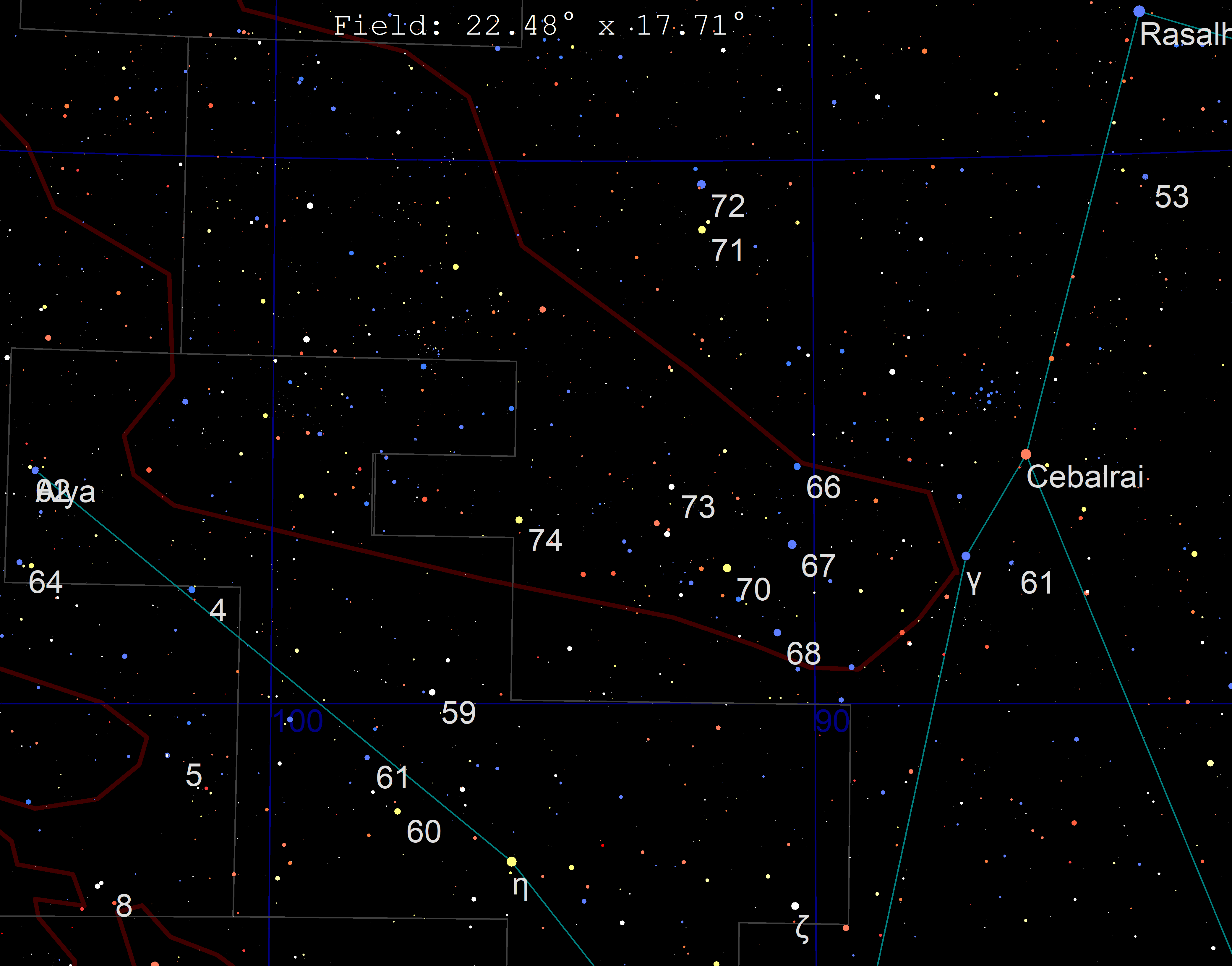 Taurus_Poniatovii starmap